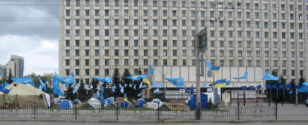 Tents of the anti-crisis coalition near Central Elections commitee